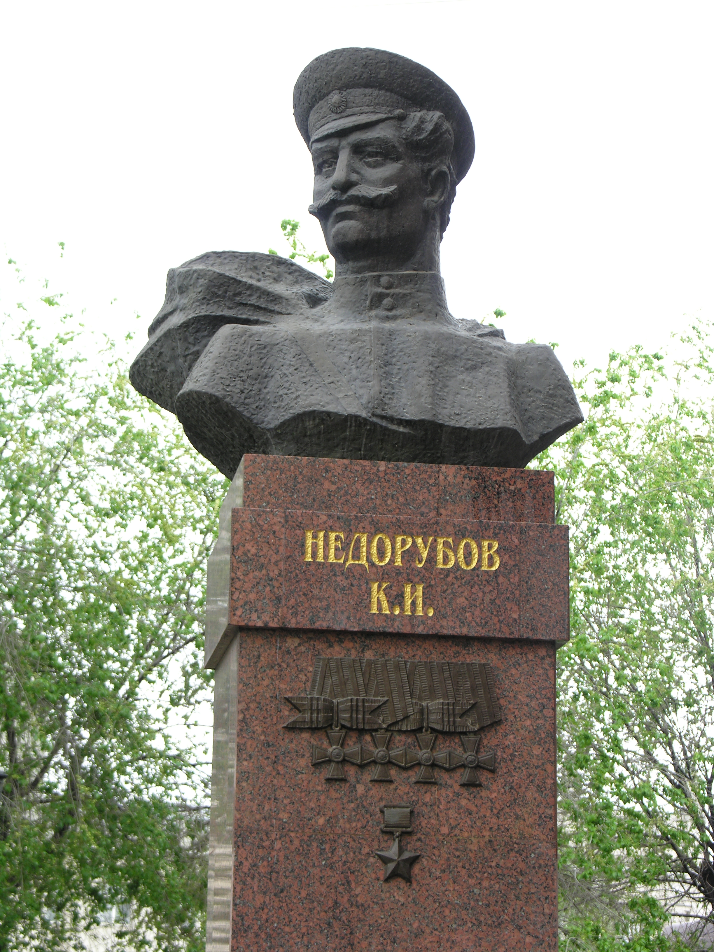 Monument to Konstanin Nedorubov, Russian and Soviet officer, Hero of the Soviet Union. Volgograd.